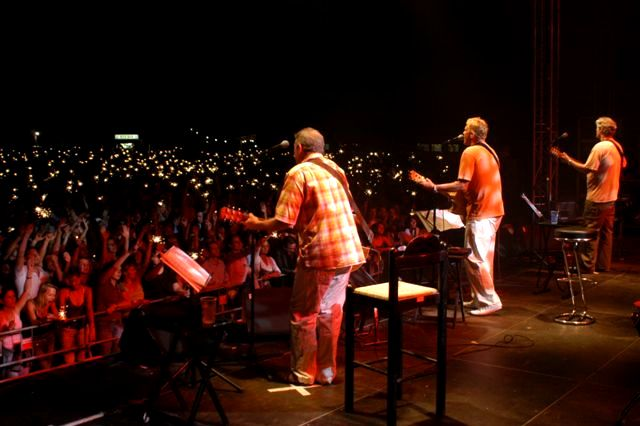 Austrian group "Austria 3" performing in Krems, Austria. From left: Wolfgang Ambros, Rainhard Fendrich, Georg Danzer.